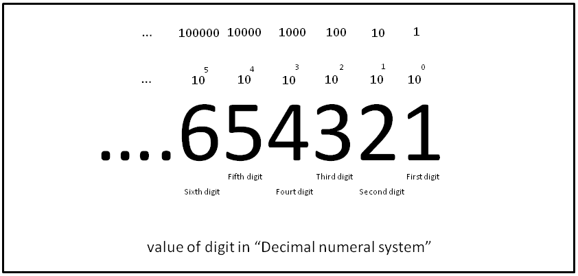 place value of digit in decimal numeral system